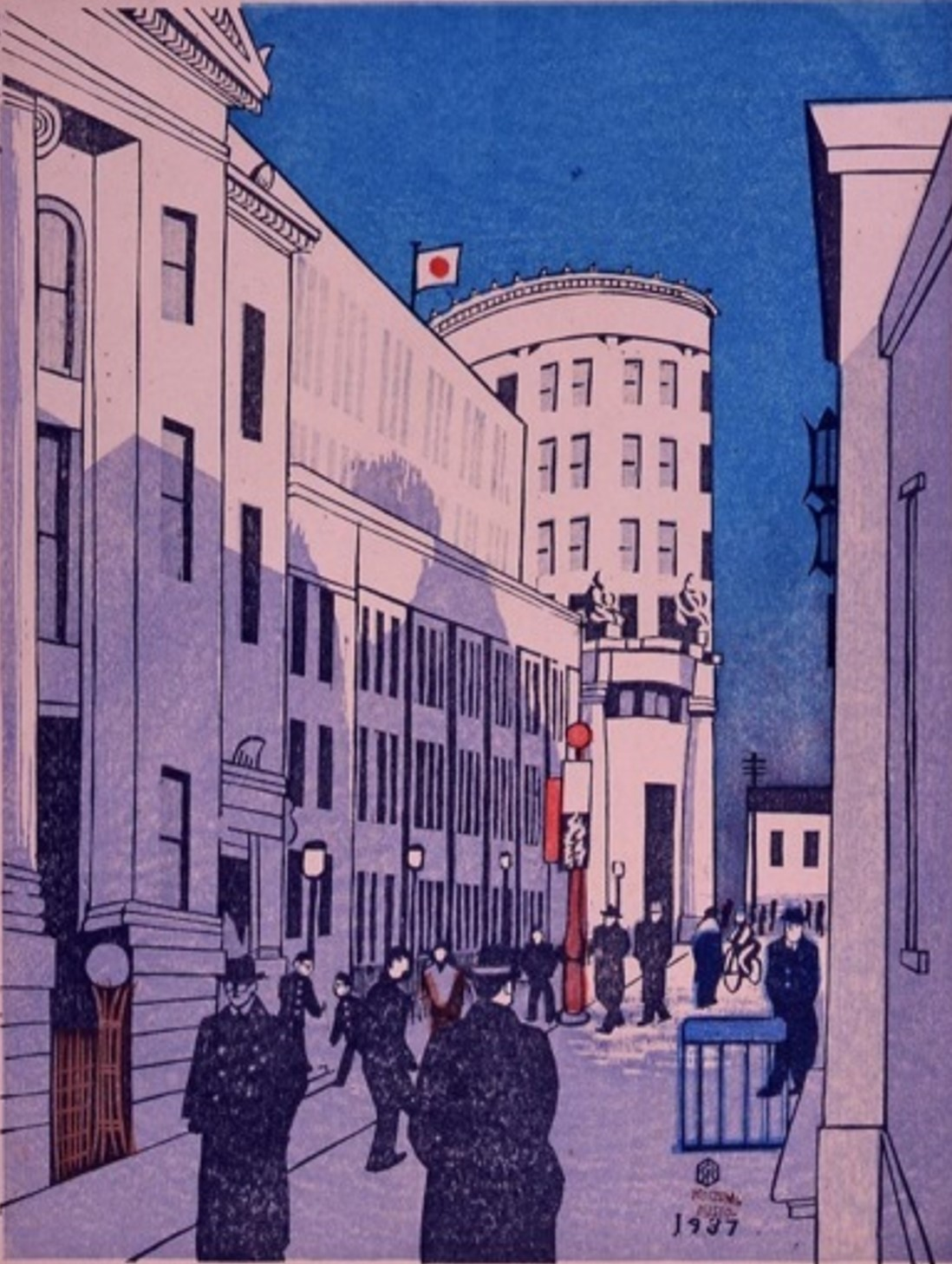 Woodcut, Stock Exchange at Kabutochō, Tokyo